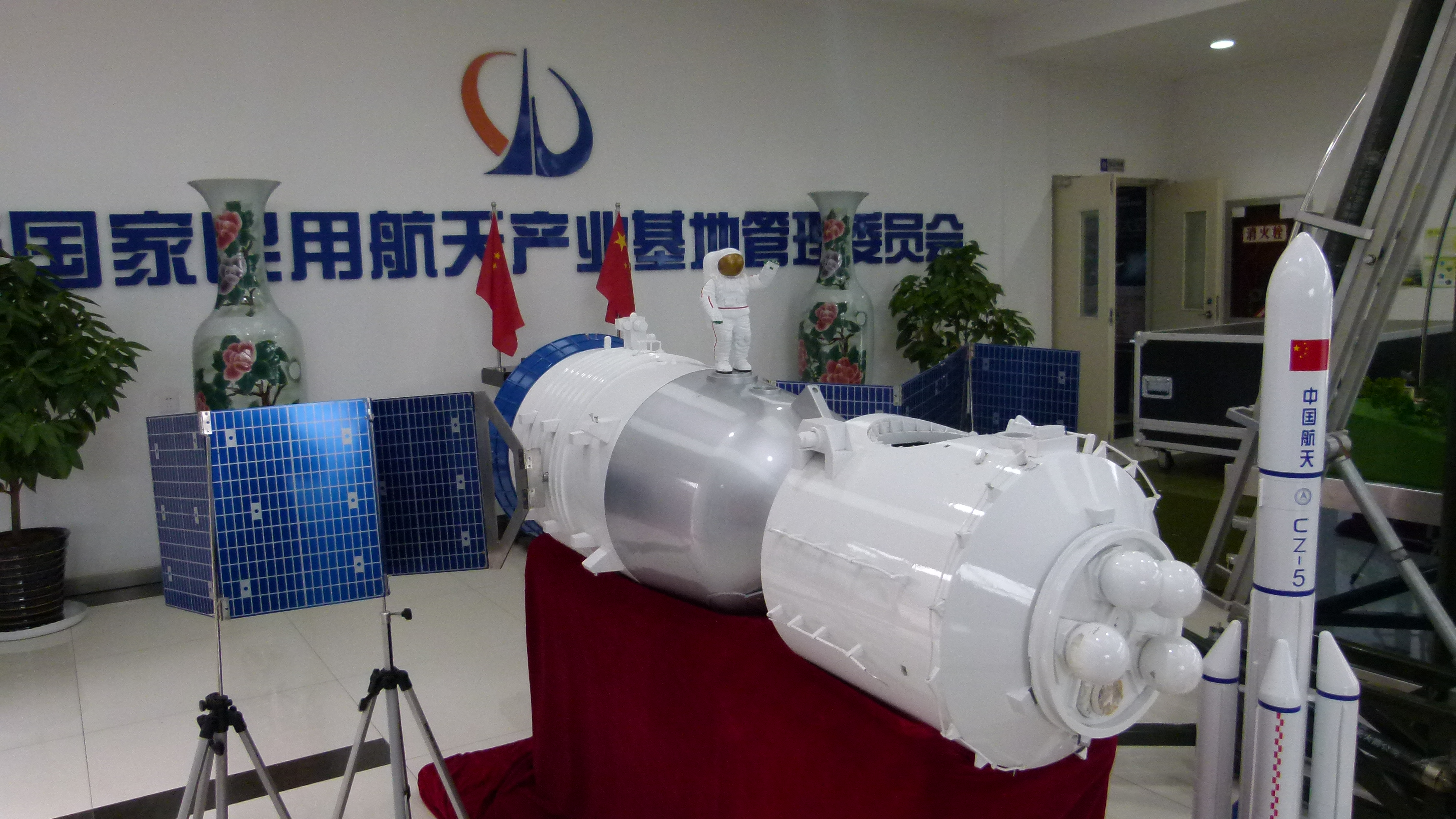 Shenzhou 7 spacecraft model & model of rocket CZ-5, Show room in the Xi'an Natonal Civil Aerospace Industrial Base